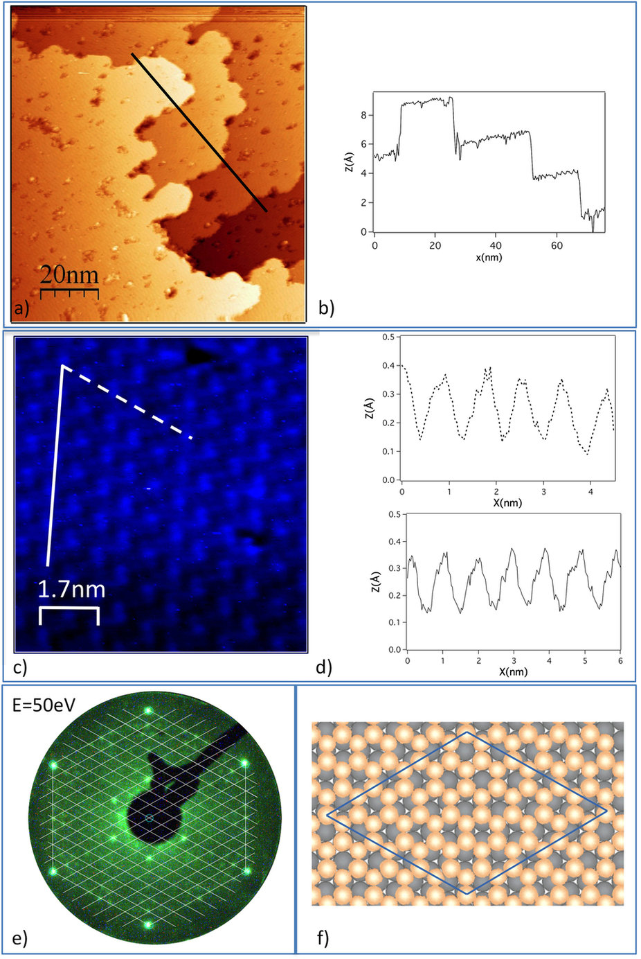 (a) Large scale STM image (tunneling current It = 0.982 nA; sample bias Vs = −0.98 V) showing different flat terraces. (b) Profile (black line in (a)) showing step heights of ~3.2 Å. (c) Higher resolution STM topograph (It = 0.775 nA; Vs = −1.1 V) showing large protrusions arranged in a distorted hexagonal arrangement (image as acquired: no drift correction). (d) Profiles along the white continuous and dashed lines in (c) showing a ~9–10 Å separation between protrusions having heights of just ~0.2 Å. (e) Corresponding LEED pattern recorded at 50 eV primary energy (integer order spots are the strong ones at the periphery) superposed with a 8 × 8 grid. (f) Top view ball model of epitaxial few monolayer germanene on the Au(111) substrate. For clarity only one germanene layer on top of one Au(111) unreconstructed layer are displayed; the epitaxy is such that a 3√3 × 3√3 reconstructed germanene cell coincides with a 8 × 8 supercell (in blue) of Au(111) with the germanene armchair edges aligned along the dense gold rows.